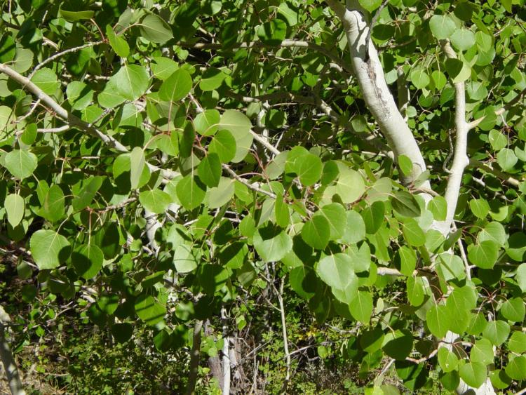 Image taken in September 2003 by Daniel Mayer.